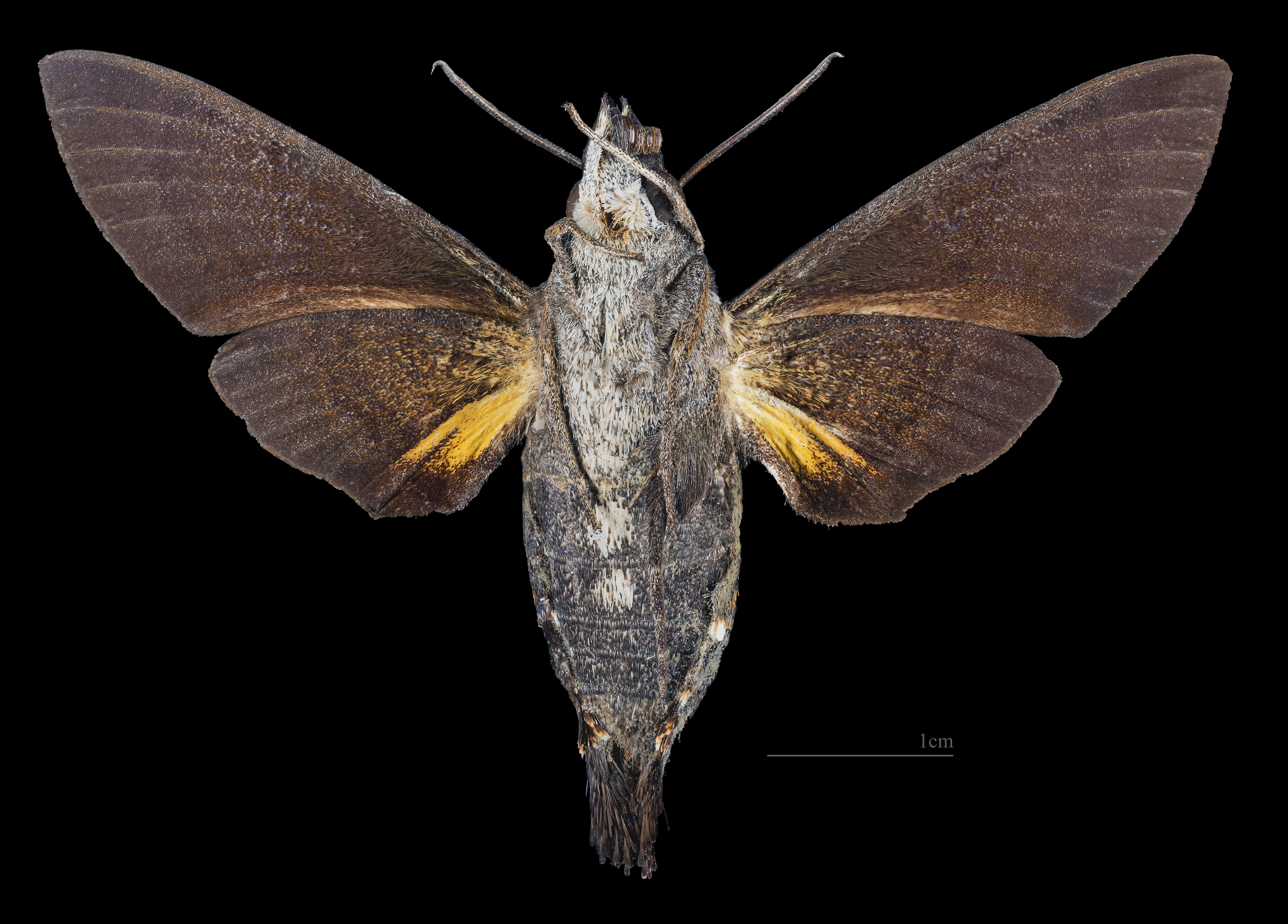 Macroglossum nigellum - △ Ventral side Collection of the Mathematician Laurent Schwartz